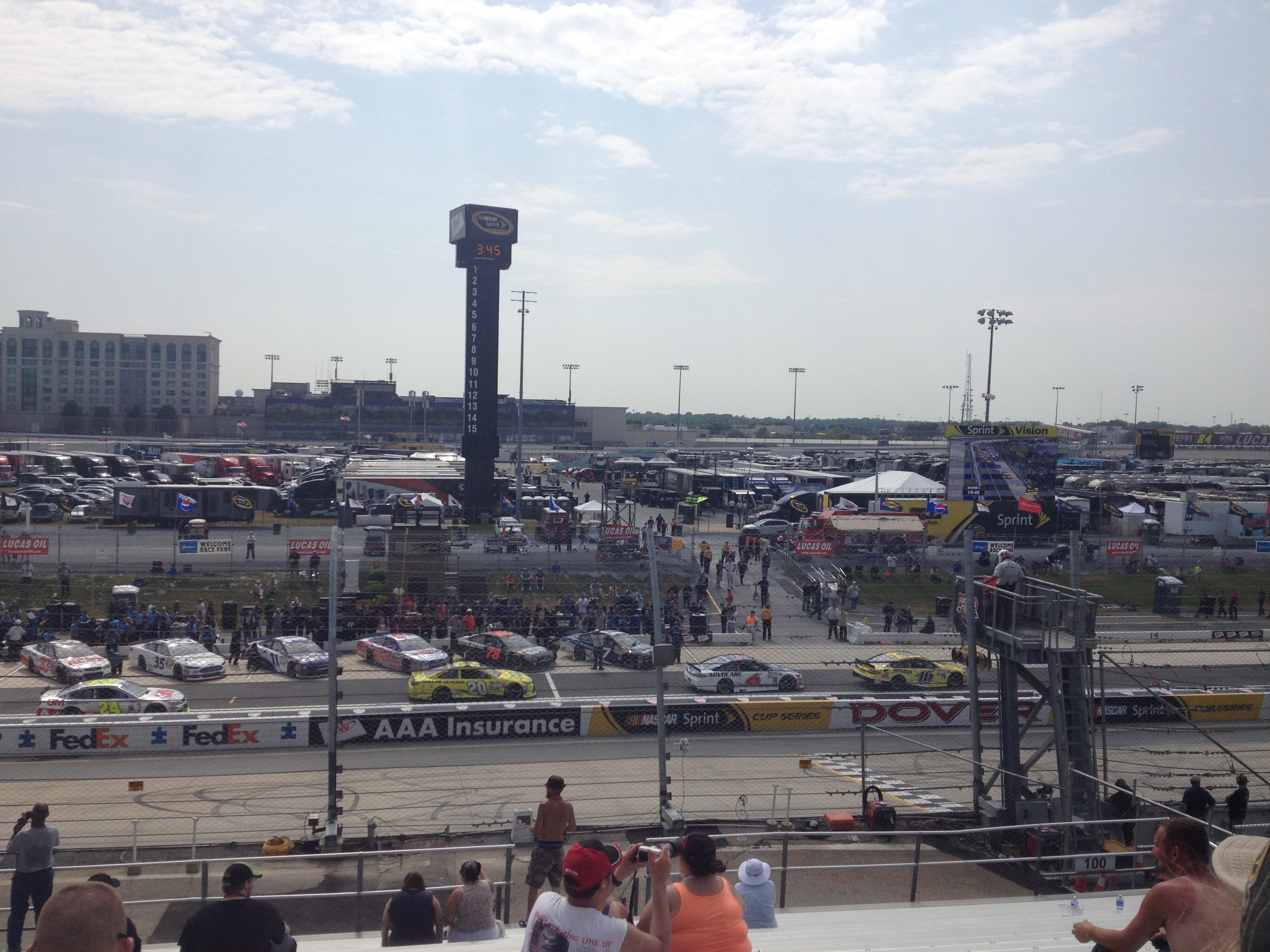 Qualifying for the 2015 FedEx 400 at Dover International Speedway viewed from the frontstretch